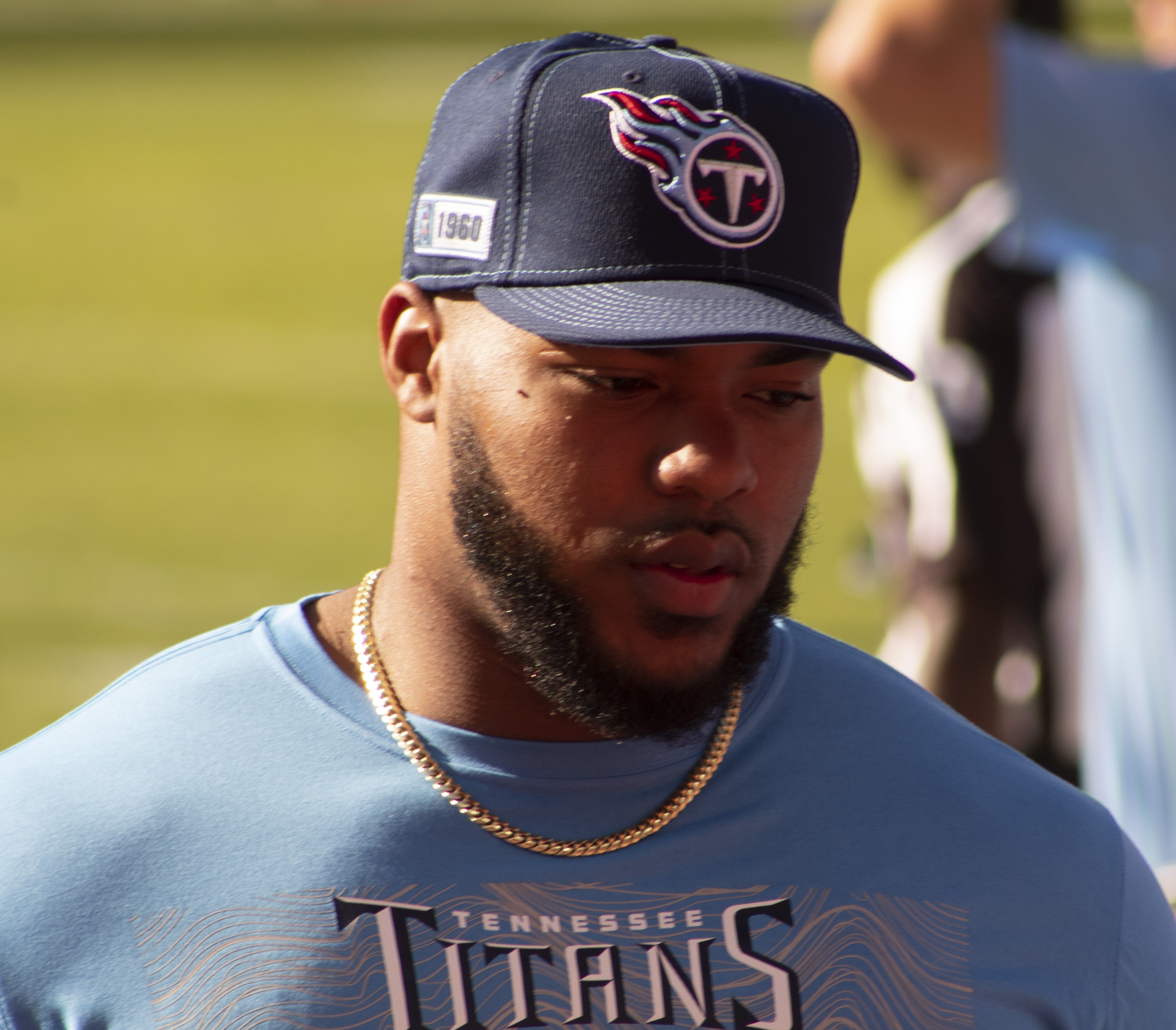 Jeffery Simmons with the Tennessee Titans on October 13, 2019